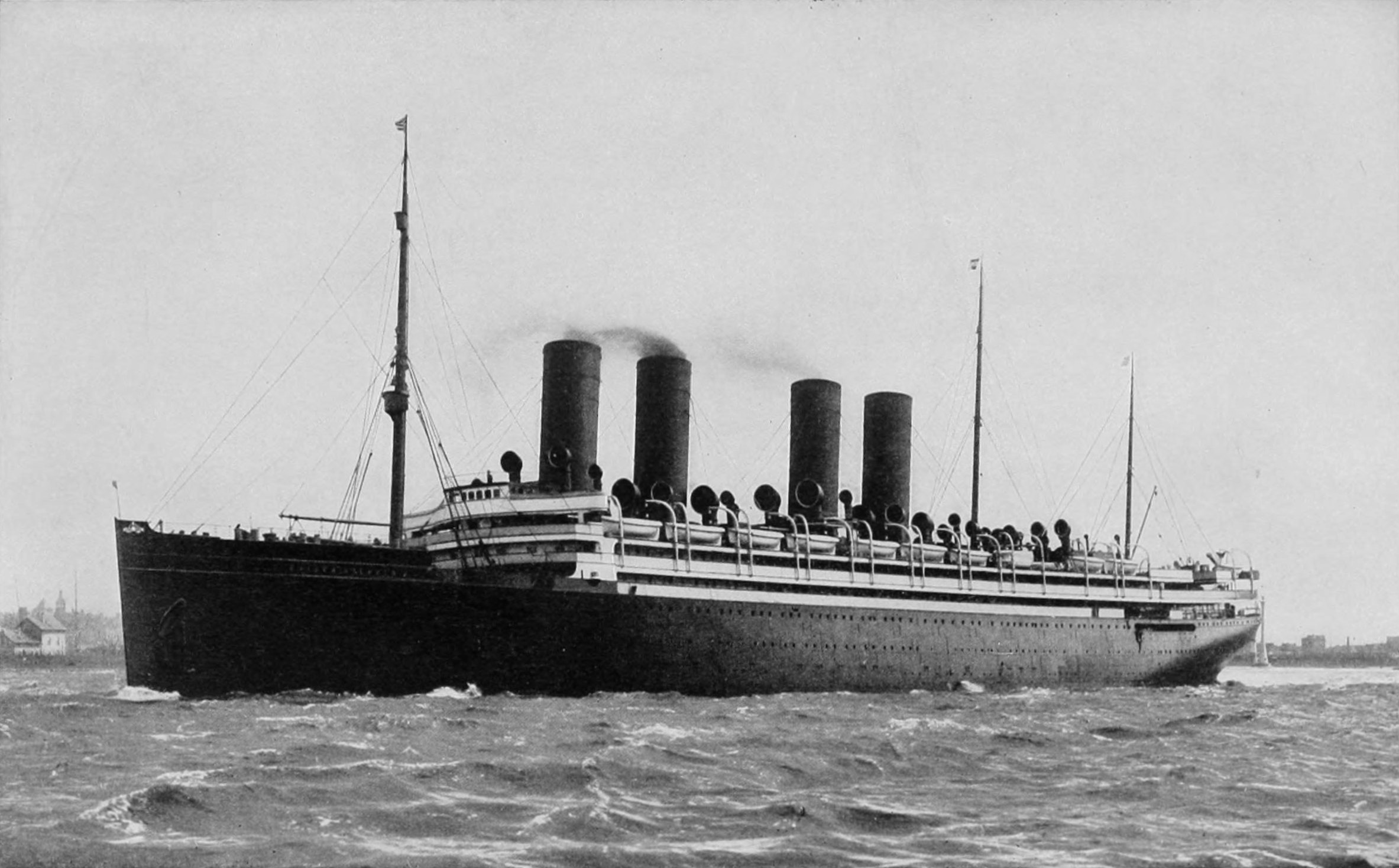 Photograph of the transatlantic steamer Kaiser Wilhelm II.